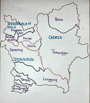 Gerik, Grik, Temenggor, Belum, Lenggong, Kenering, Kota Tampan, Temelong, Durian Pipit, Kerunai, Belukar Semang, Pengkalan Hulu